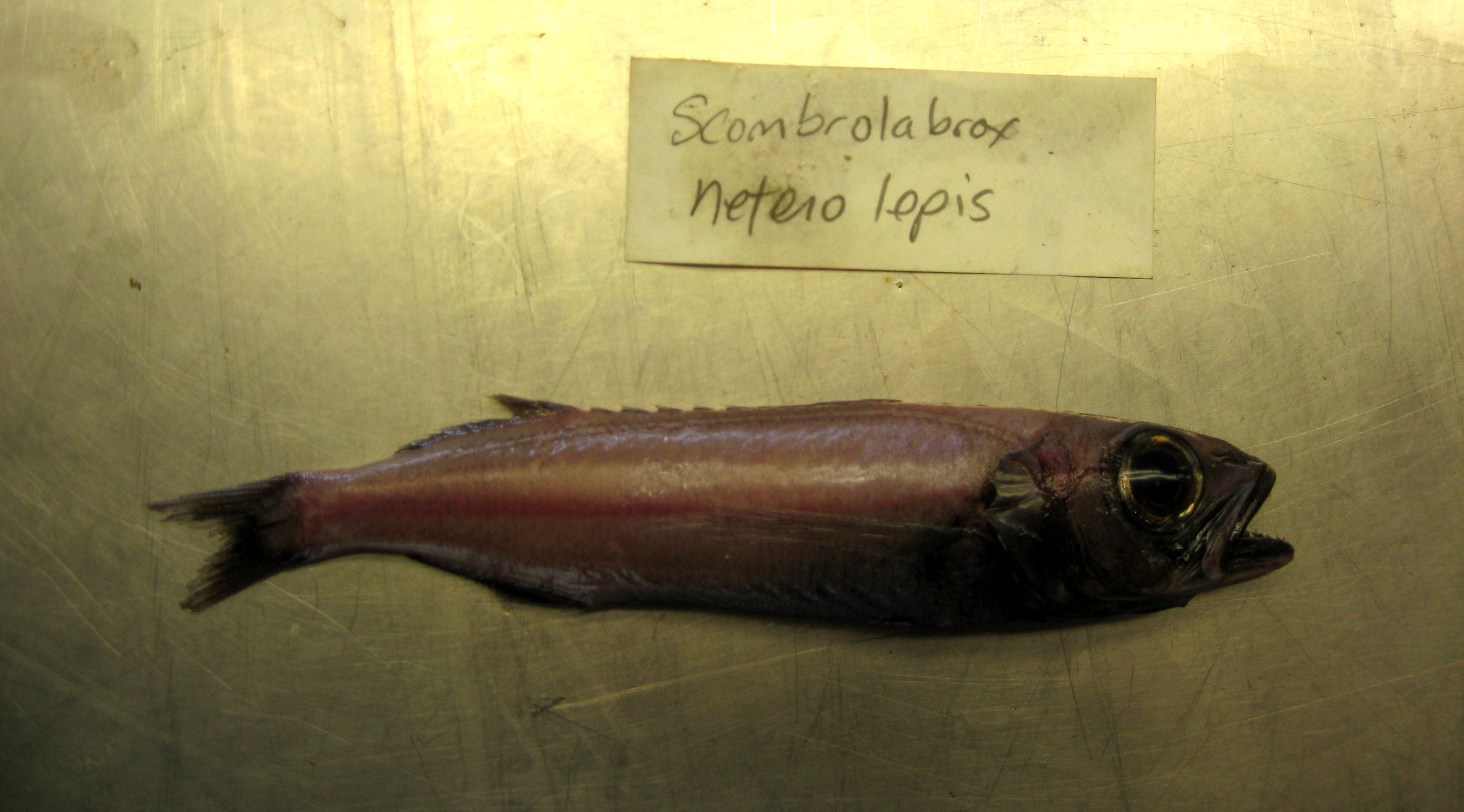 Scombrolabrax heterolepis